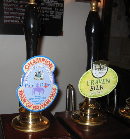 Author: John White. "This photo was taken by myself, in February, 2005, in the Monsal Head Hotel, in Derbyshire, England. It features hand pumps for beer from, as can be seen from the Pump Clips attached to the pumps: the Kelham Island Brewery, in Sheffield, South Yorkshire, England; and thornbridge BREWERY, Ashford in the Water, Derbyshire, England. I cover these two breweries on my Web page